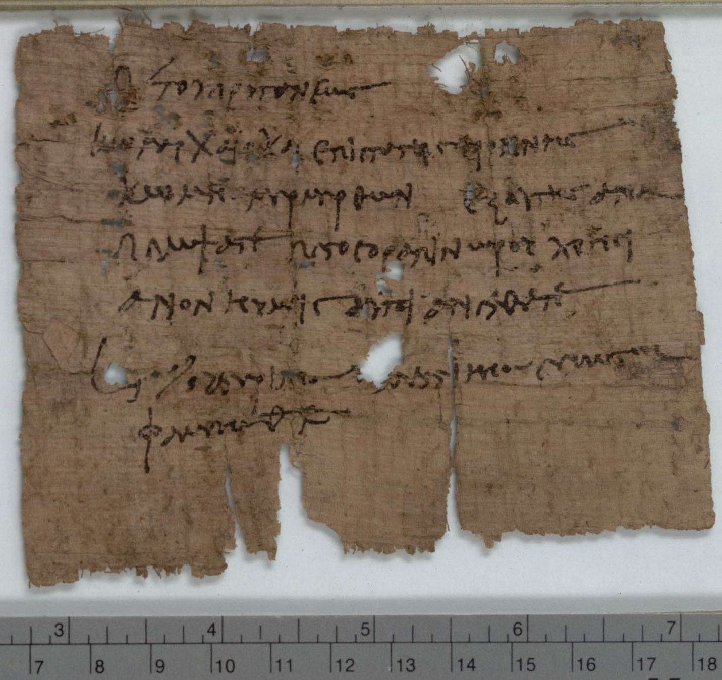 Oxyrhynchus Papyri XLII 3035.